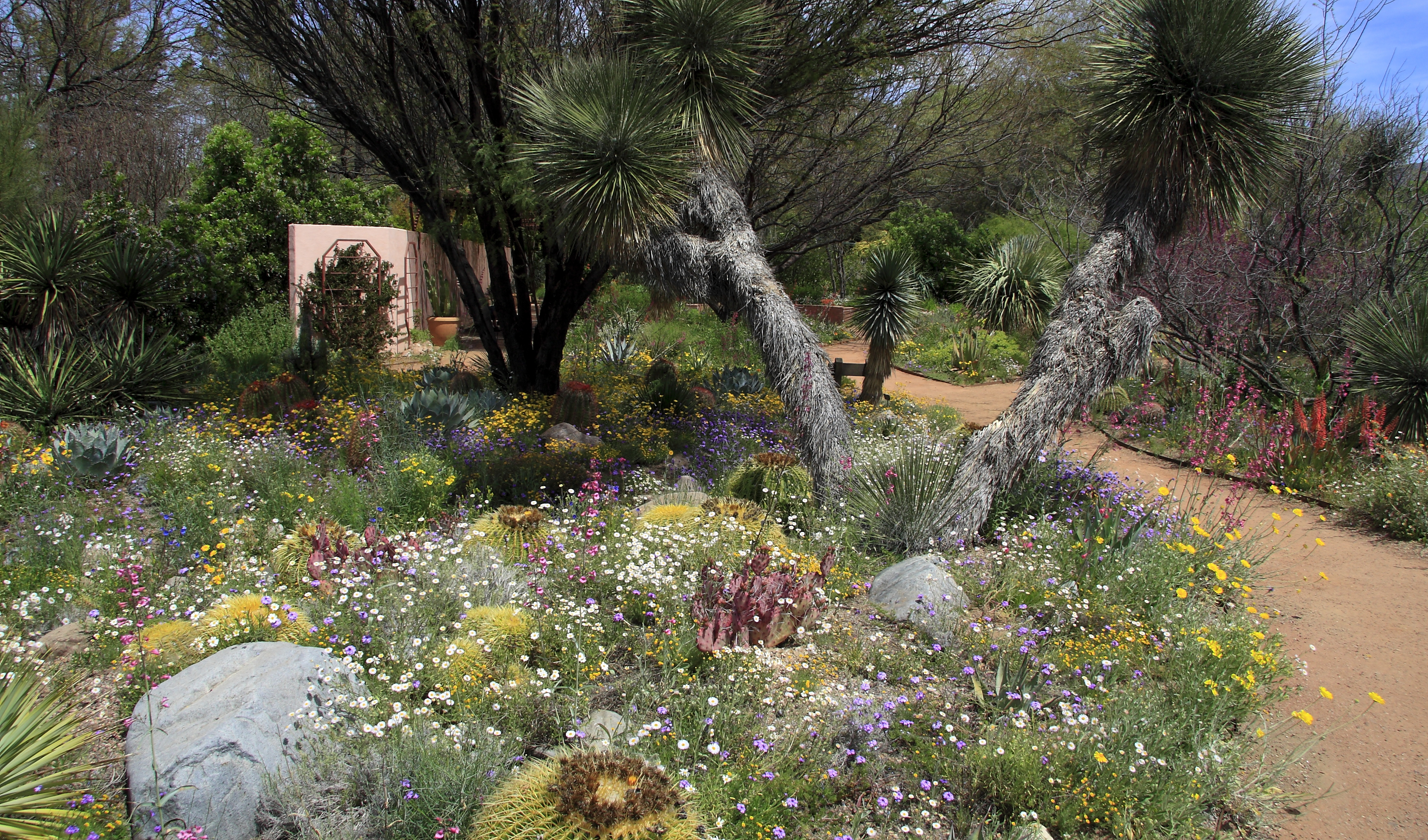 Wildflowers, Boyce Thompson Arboretum in Arizona